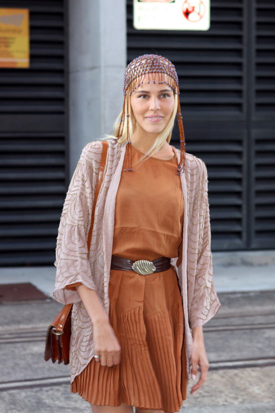 Isabel Lucas at the Asos Fashion Cocktail Party, 2011